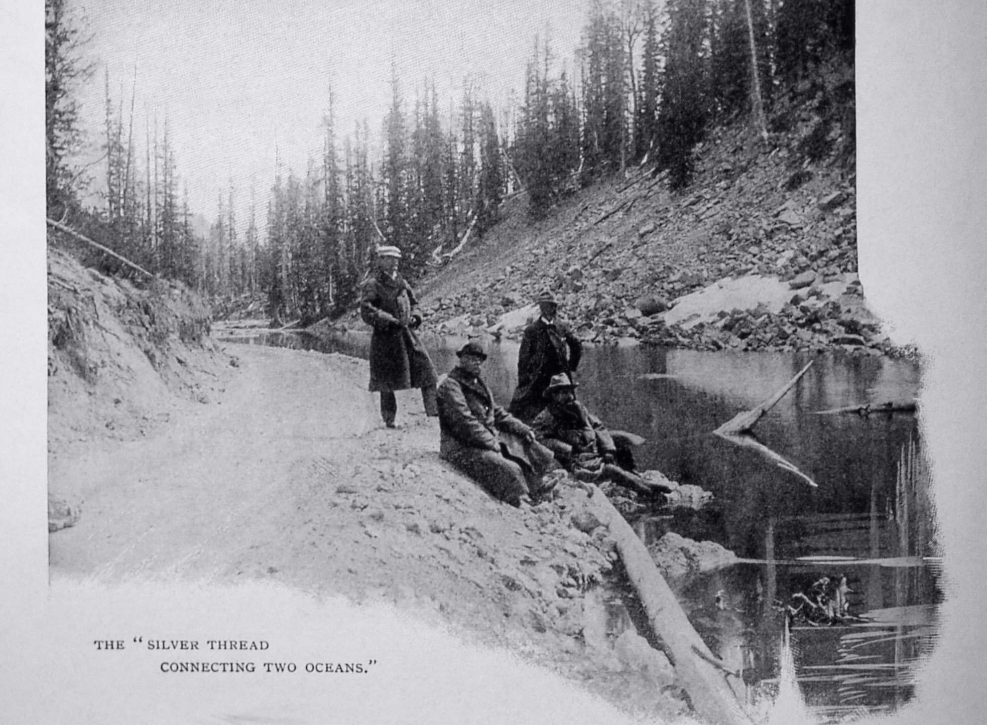 Early visitors to Isa Lake, Craig Pass, Yellowstone National Park